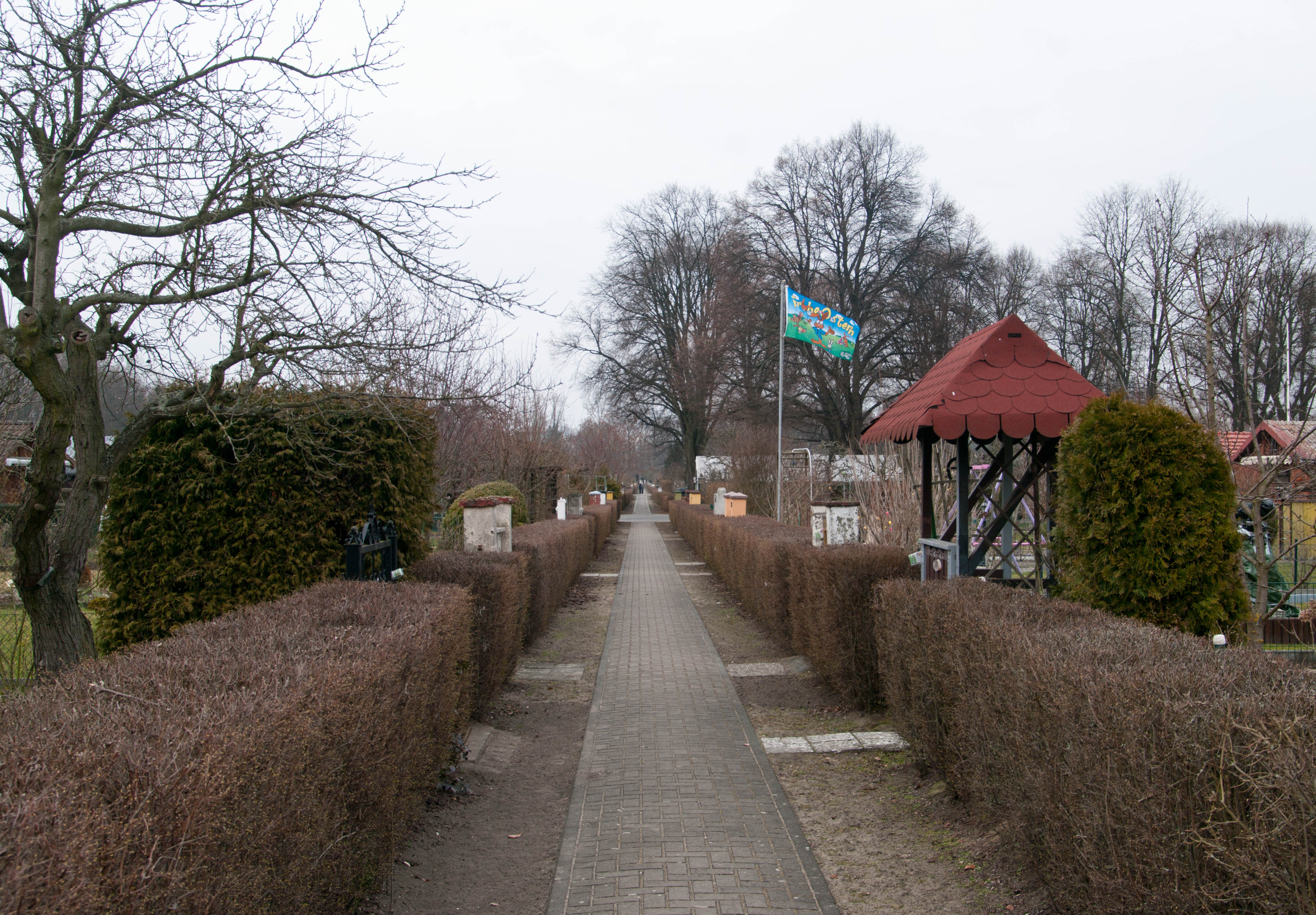 Volkspark Rehberge, Berlin, in march 2016